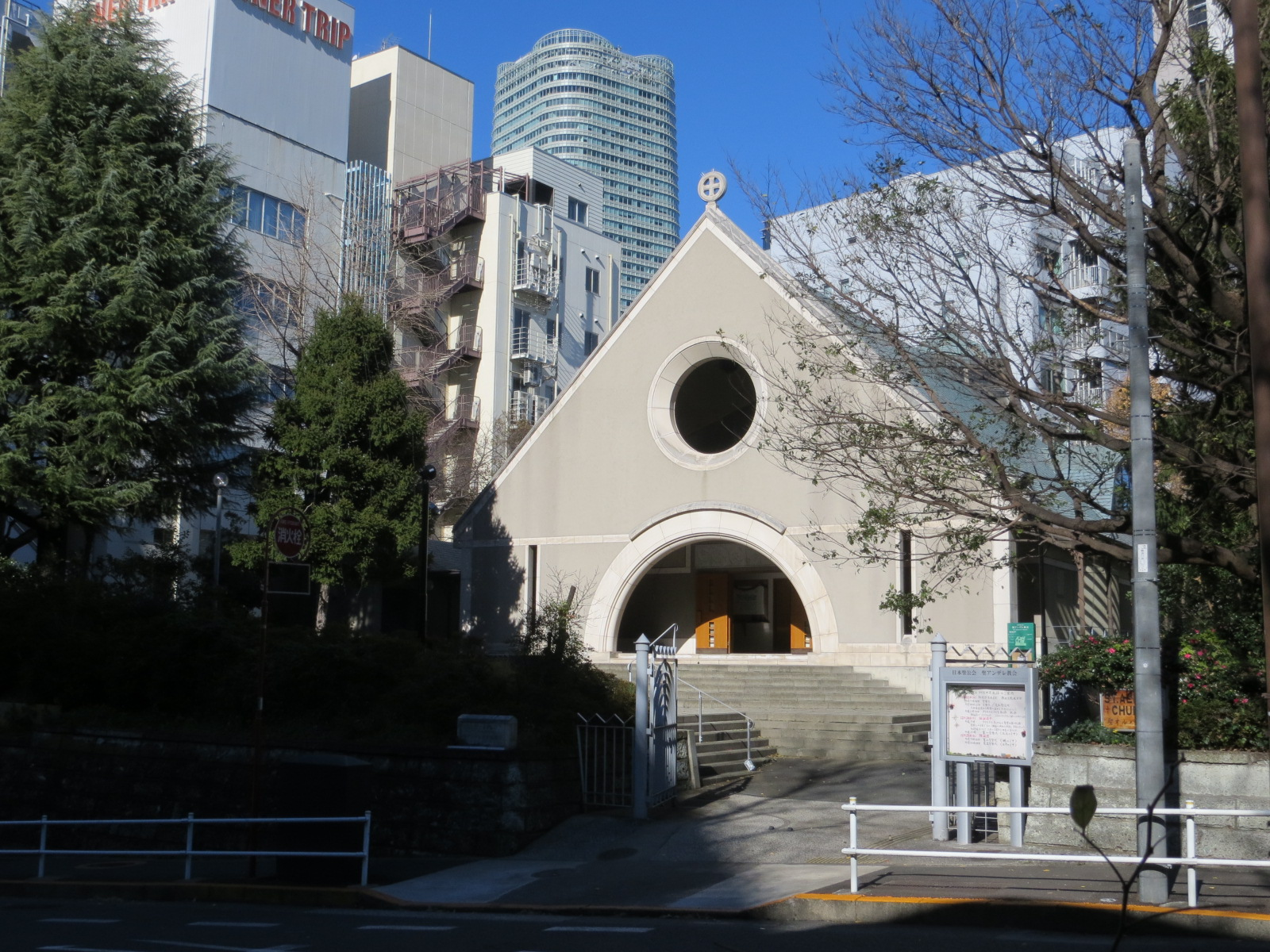 St. Andrews, Cathedral Church of the Tokyo Diocese of the Anglican Church in Japan (Nippon Sei Ko Kai), Tokyo